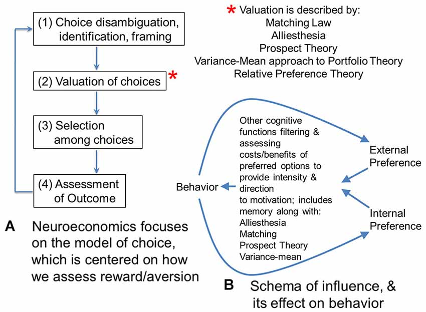 Neuroeconomics influence vs. choice